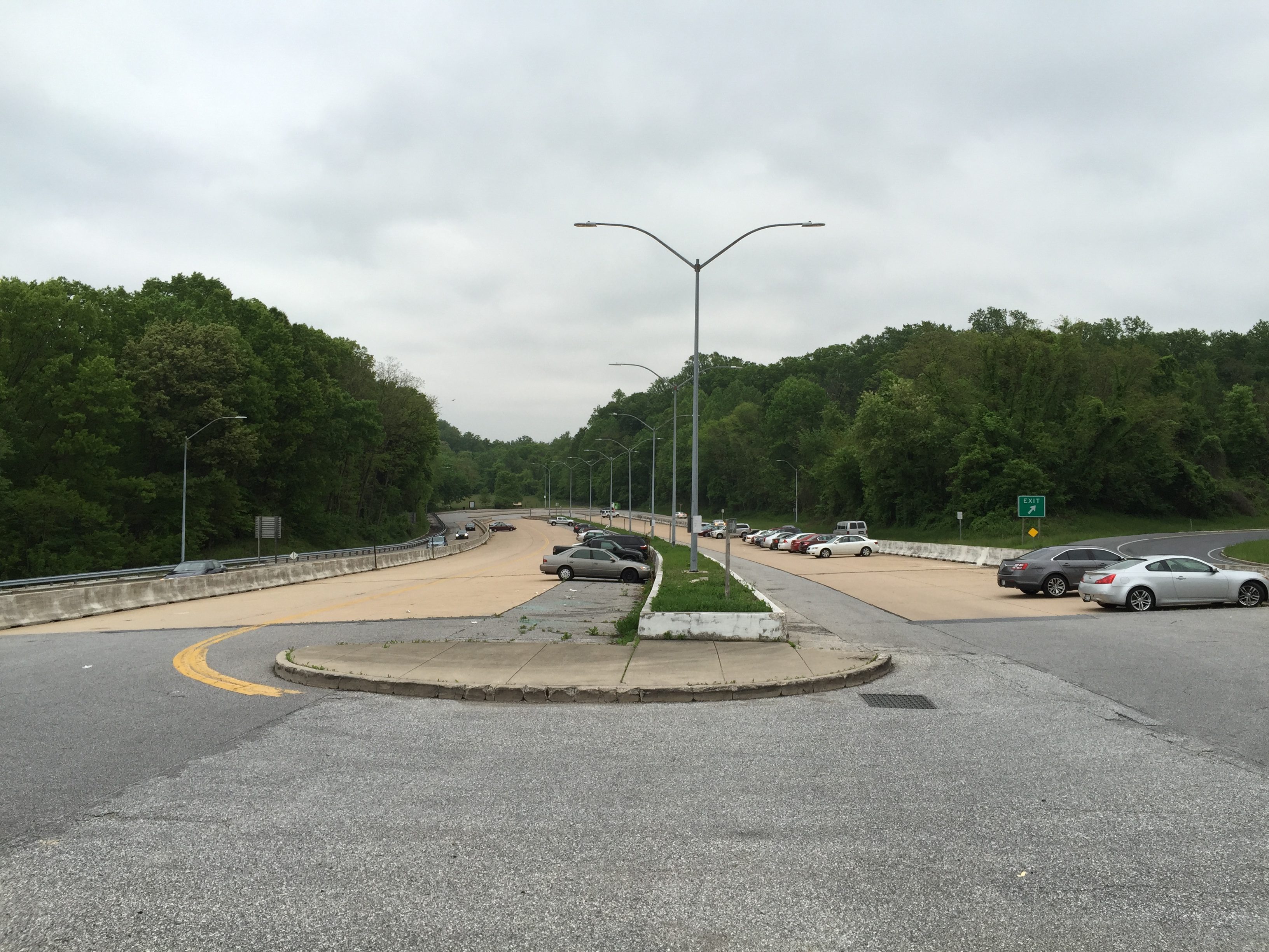 View east along Interstate 70 just west of its eastern terminus at the border of Baltimore City and Woodlawn, Baltimore County in Maryland